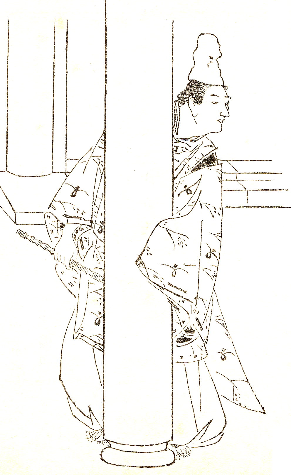 Minamoto no Hiromasa (源 博雅, 918 - 980) was a nobleman and gagaku musician in the Heian period. This picture was drawn by Kikuchi Yosai（菊池容斎） who was a painter in Japan.